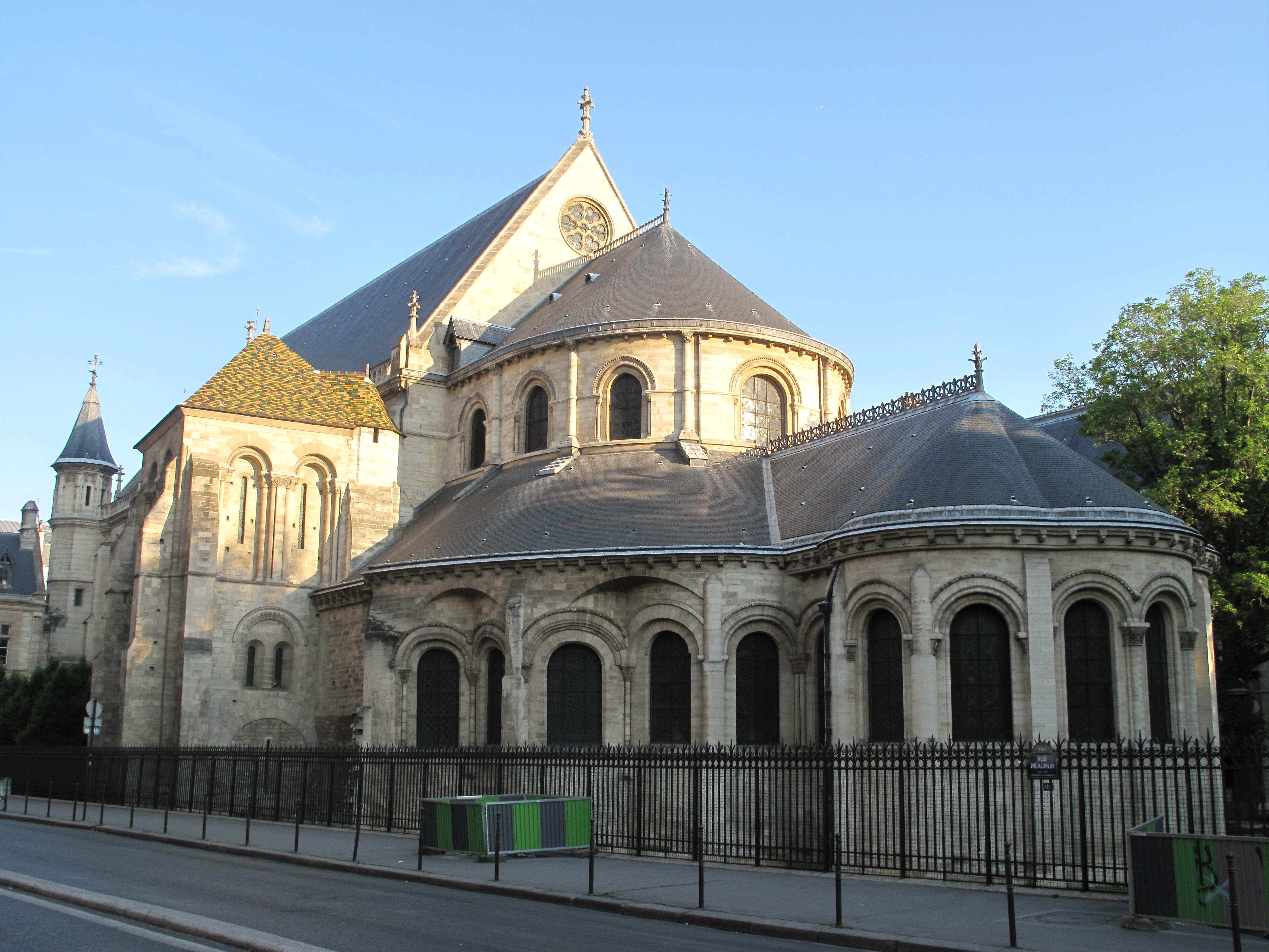 Former church of the abbey Saint-Martin-des-Champs, now Musée des Arts et Métiers. Rue Réaumur, Paris 3rd arrond.